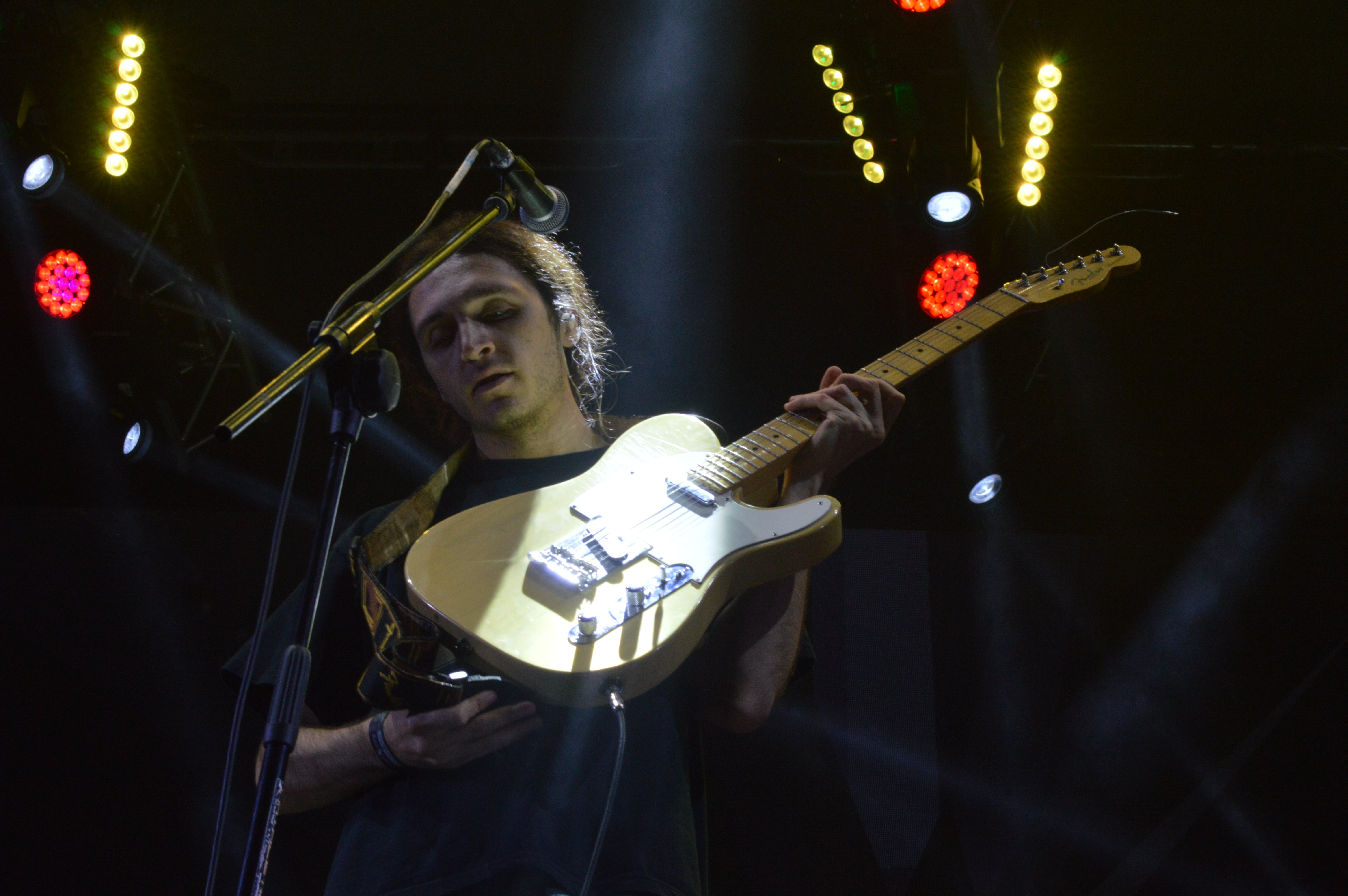 Yuriy Kaplan, the leader of the band Valentyn Strykalo at the 2018 MRPL City fest.